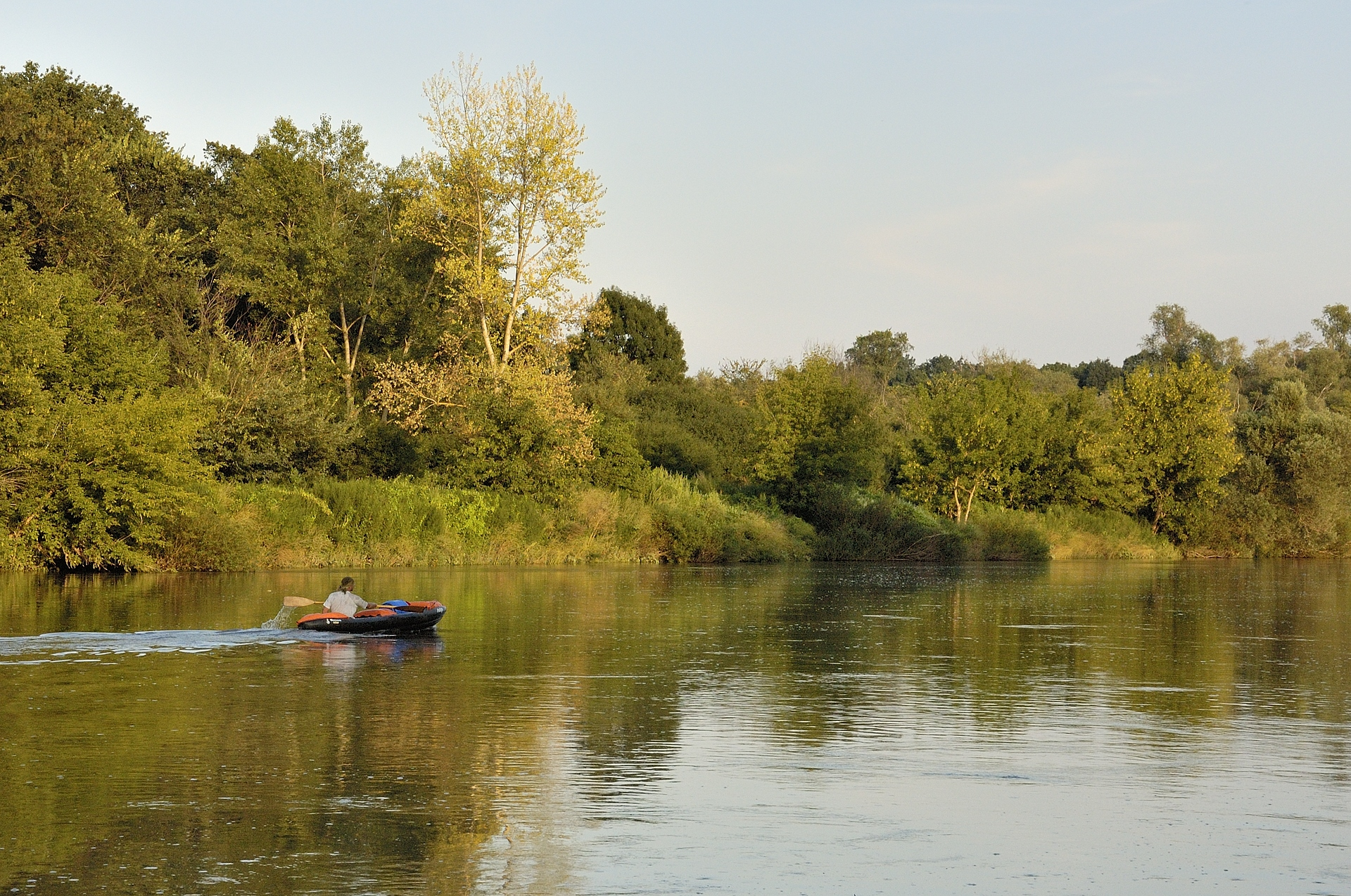 Morava river between Austria and Slovakia during sunset